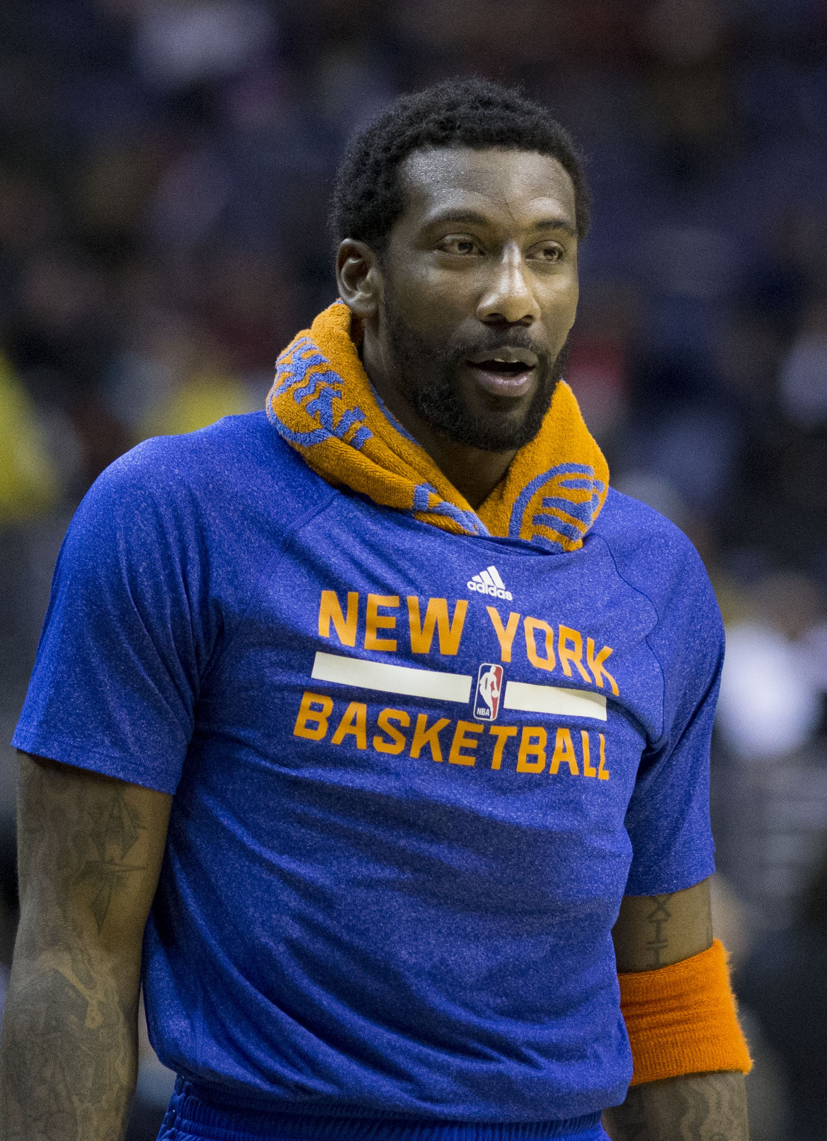 Amar'e Stoudemire at a Knicks vs Wizards game 11/23/13